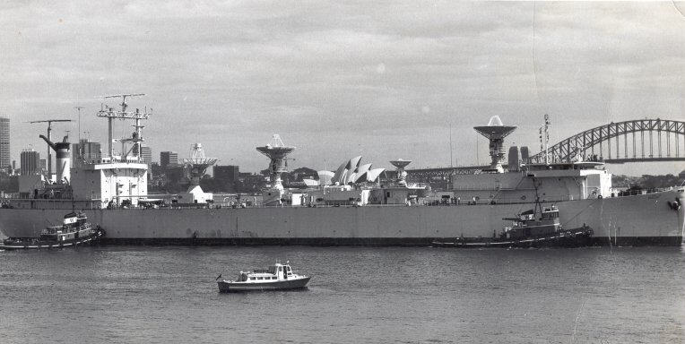 USNS Mercury (T-AGM-21) in Sydney Harbour.